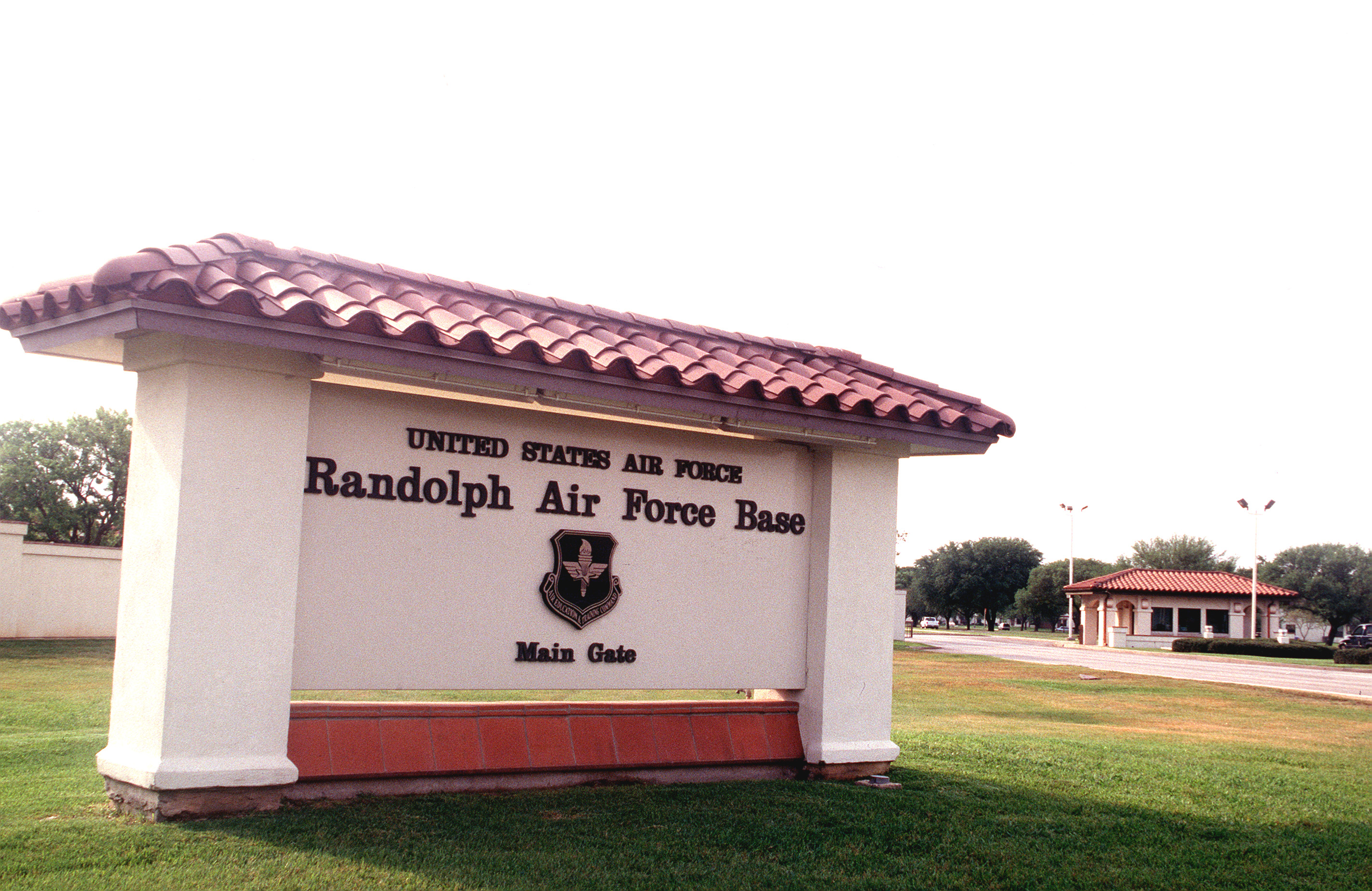 A medium-range view of the base sign at the main gate. Location: RANDOLPH AIR FORCE BASE, TEXAS (TX) UNITED STATES OF AMERICA (USA)